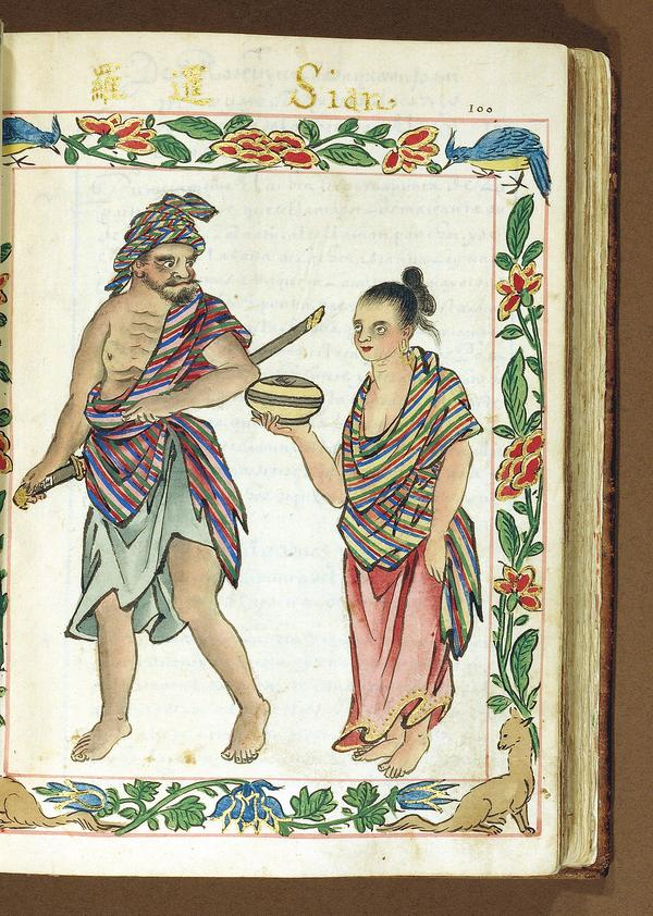 Siamese (Thai) couple in the Philippines